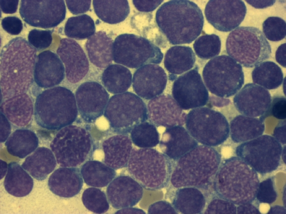 bone marrow smear (large magnification) from a patient with acute lymphoblastic leukemia